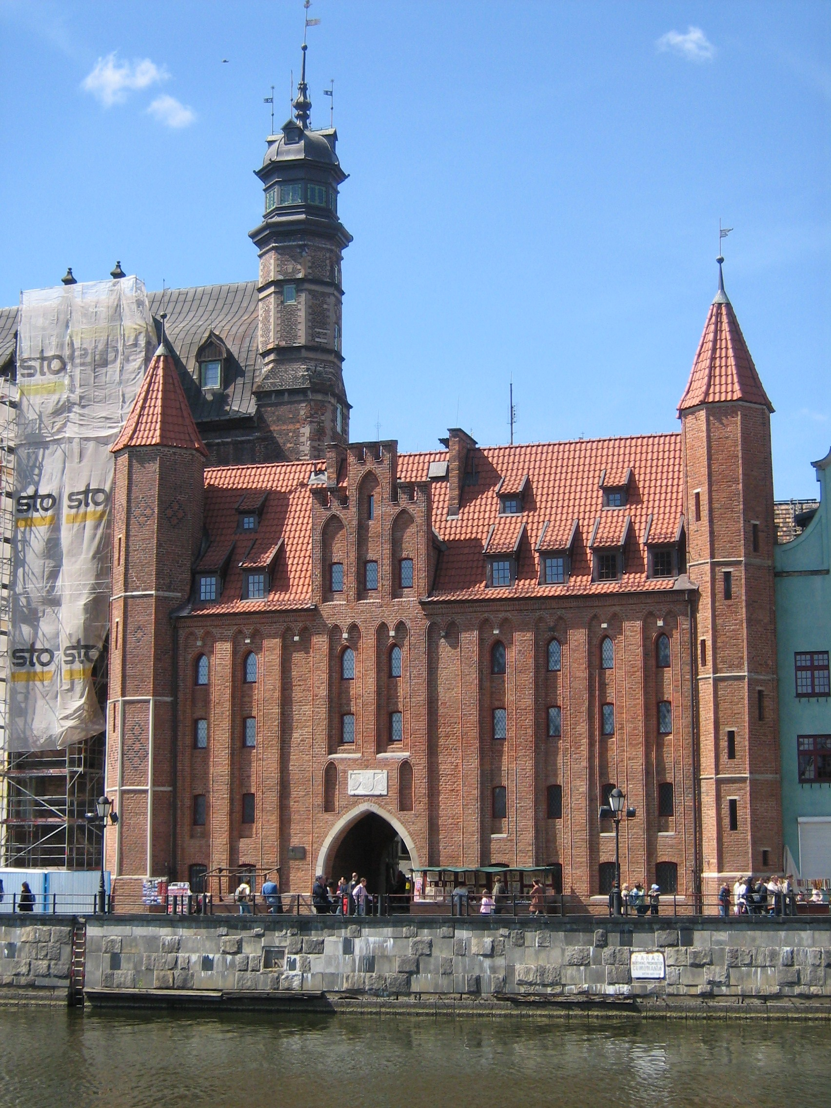 Mariacka Gate in the Main Town of Gdańsk